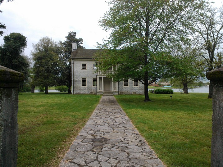 The front of Rock Castle in Hendersonville, Tennessee, USA.